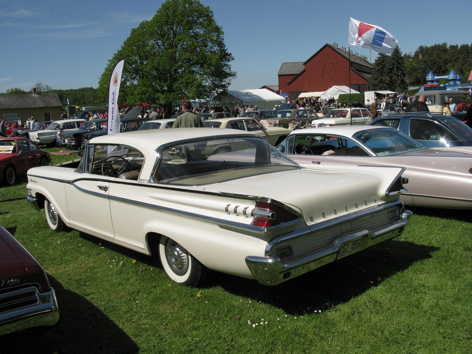 Mercury